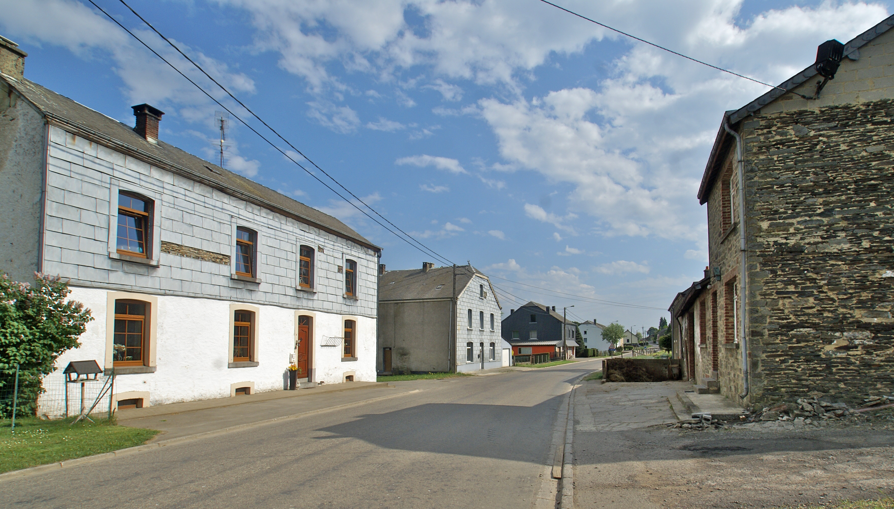 Neufchâteau (Tournay), Belgium: High Street Torimont